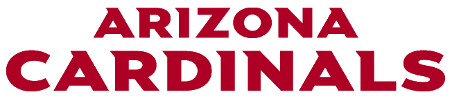 Arizona Cardinals wordmark logo from 2005 to present day.